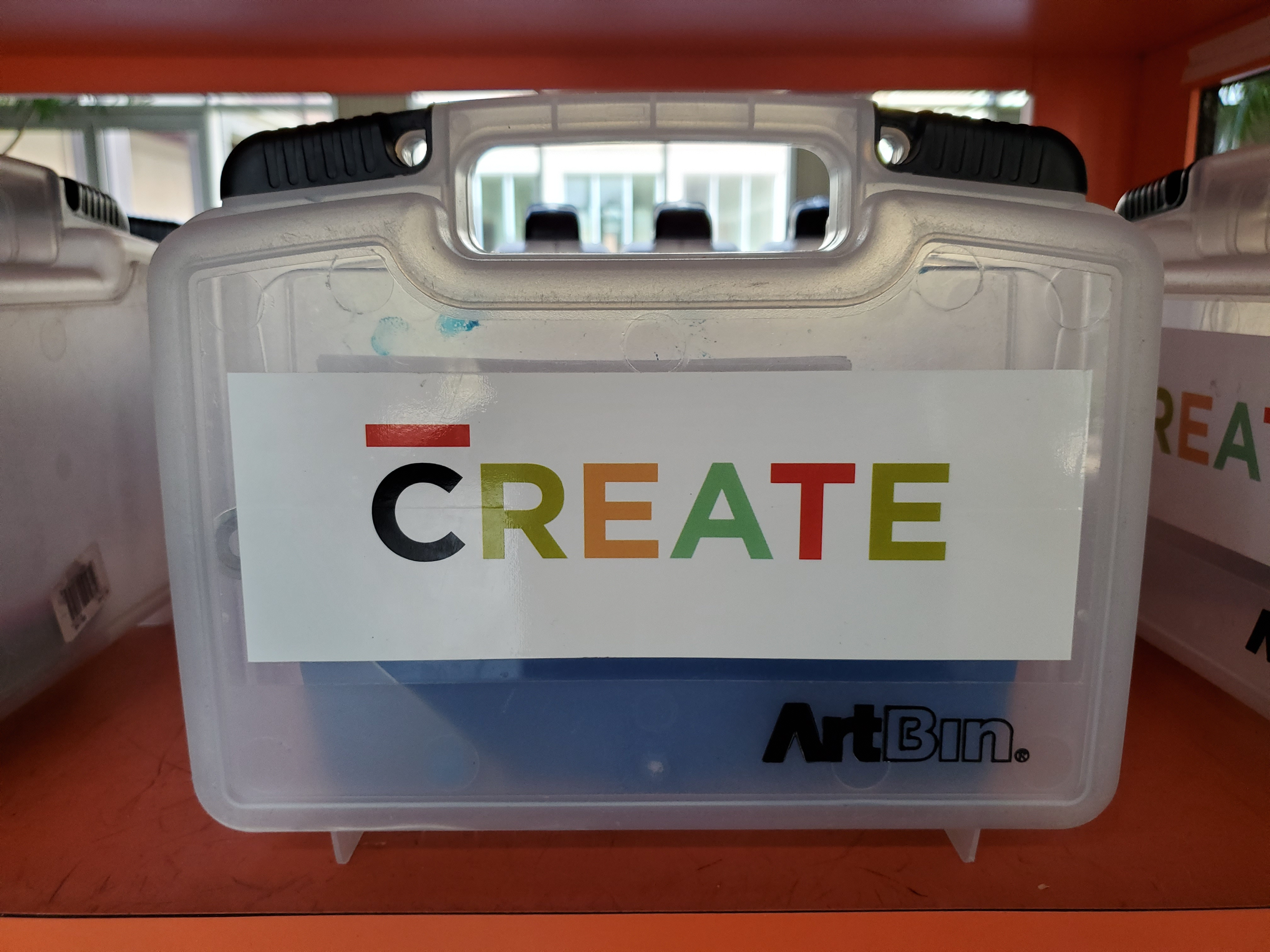 The outside of a CREATE Box, available at the CREATE Cart in the Uible Loggia at the Cummer Museum of Art and Gardens.